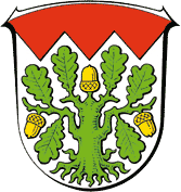 Coat of Arms of Heusenstamm